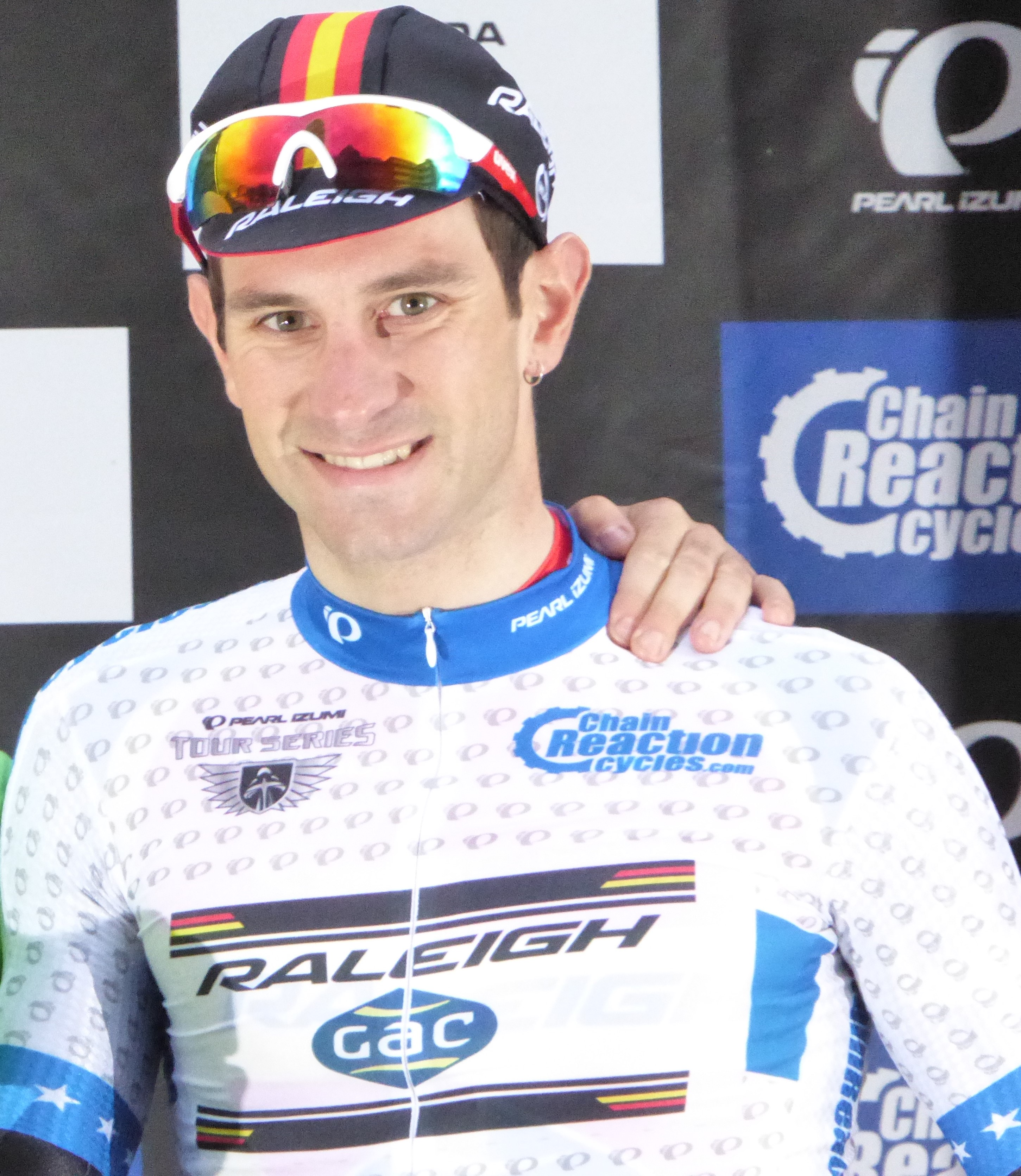 Morgan Kneisky, after Round 4 of the Pearl Izumi Tour Series in Motherwell, on 26 May 2015. Although not leading the competition, Kneisky was awarded the points classification leader's jersey on the podium.